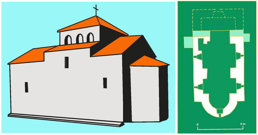 St. Djordje (Podgorica).